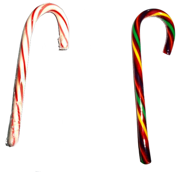 Two candy canes, a traditional one (left) and a SpreeTM flavored one (right).